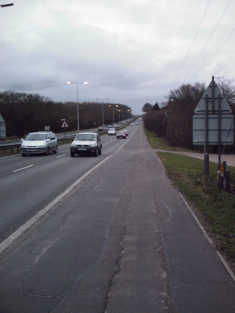 A127 - Southend bound carriageway